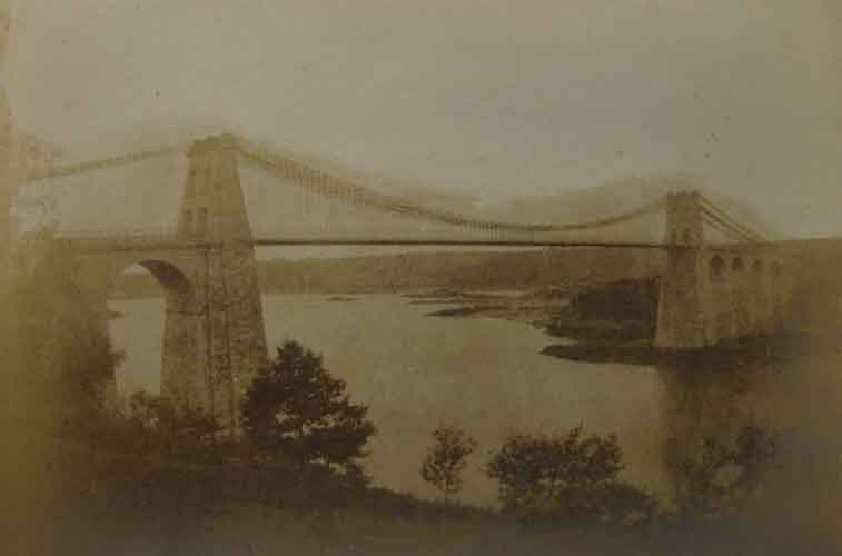 John Middleton - photograph of the Menai Bridge